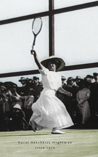 Hazel Hotchkiss Wightman, full-length portrait, facing left, playing tennis